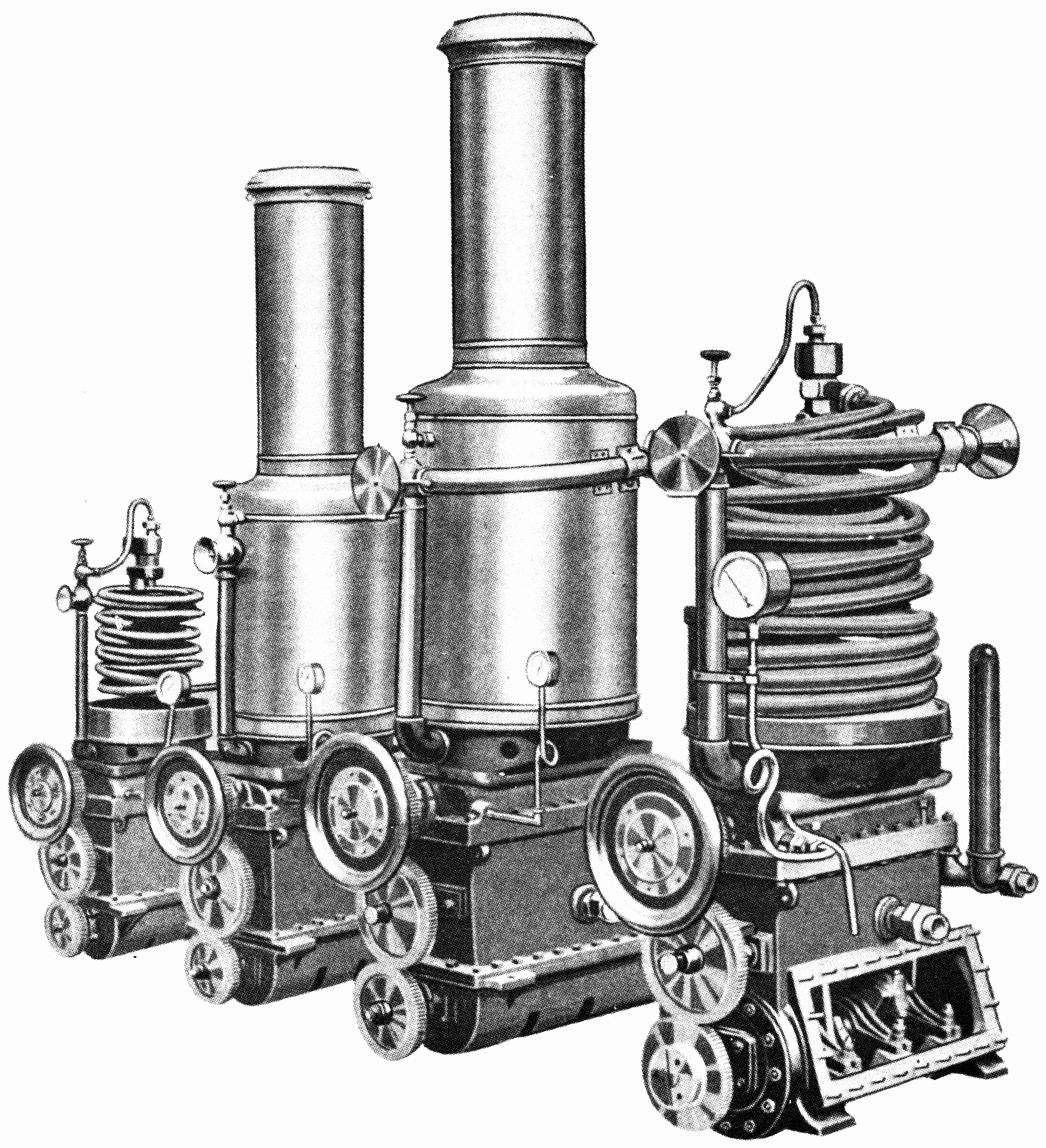 Three sizes - four types of naptha engines offered by Escher Wyss, Zÿrich, around 1890